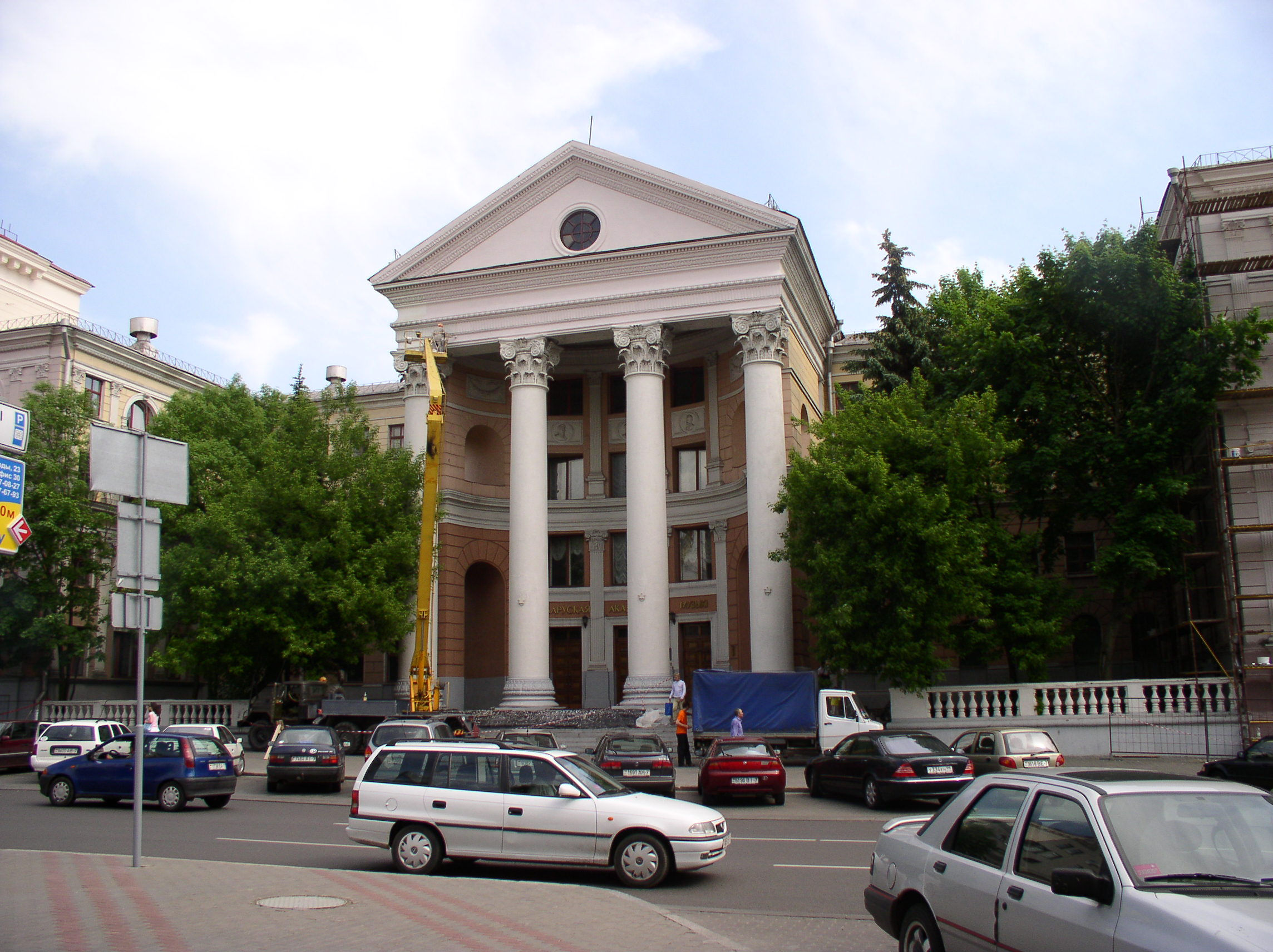 Belarusian State Academy of Music. Minsk, Belarus.